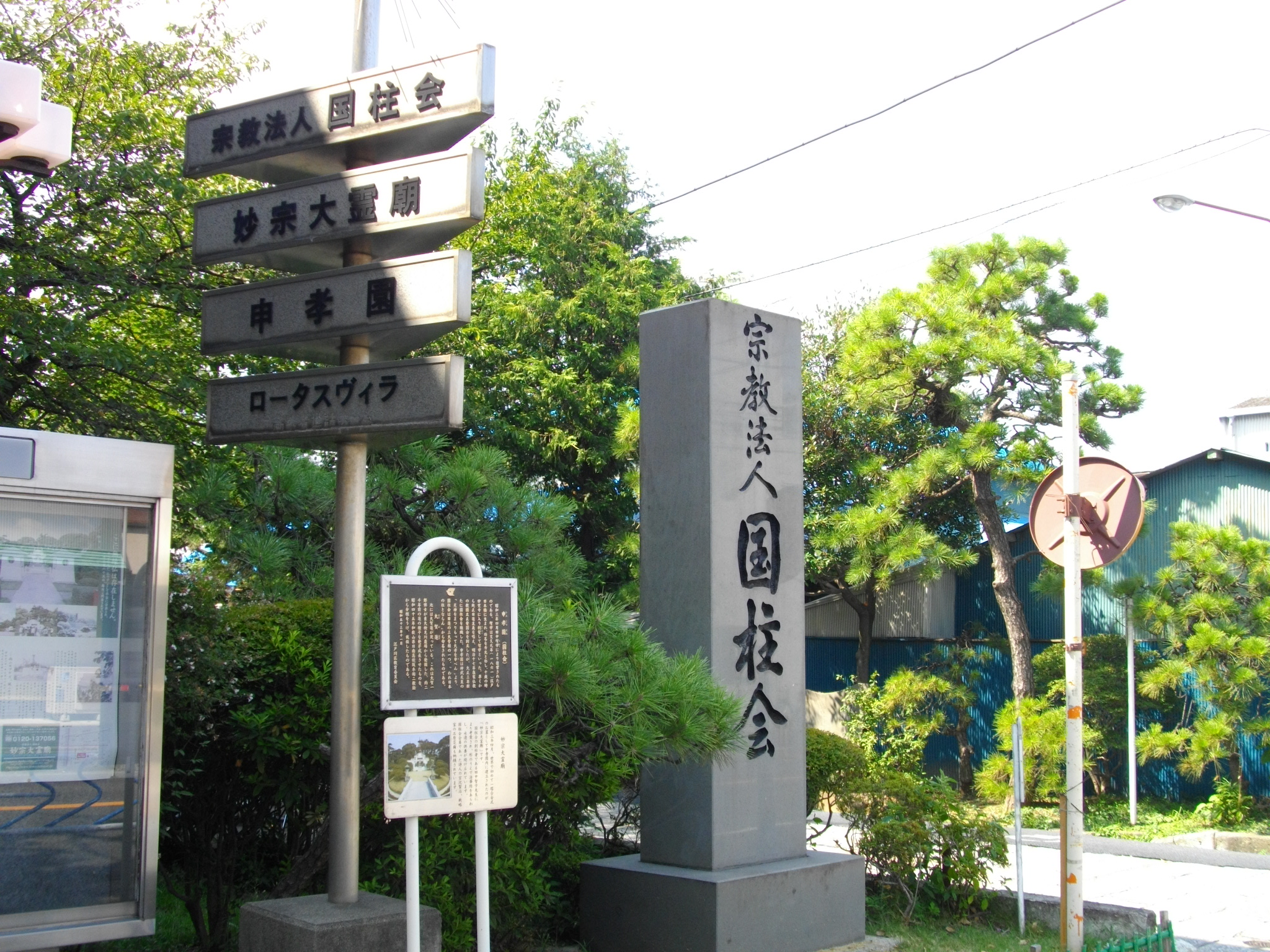 Entrance to Kokuchukai Headquaters